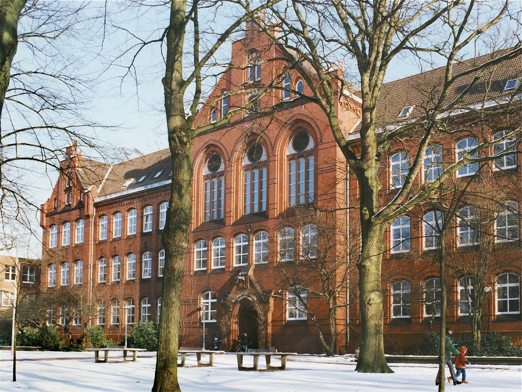 Elmshorn (Germany),Bismarck-School , photo 1999